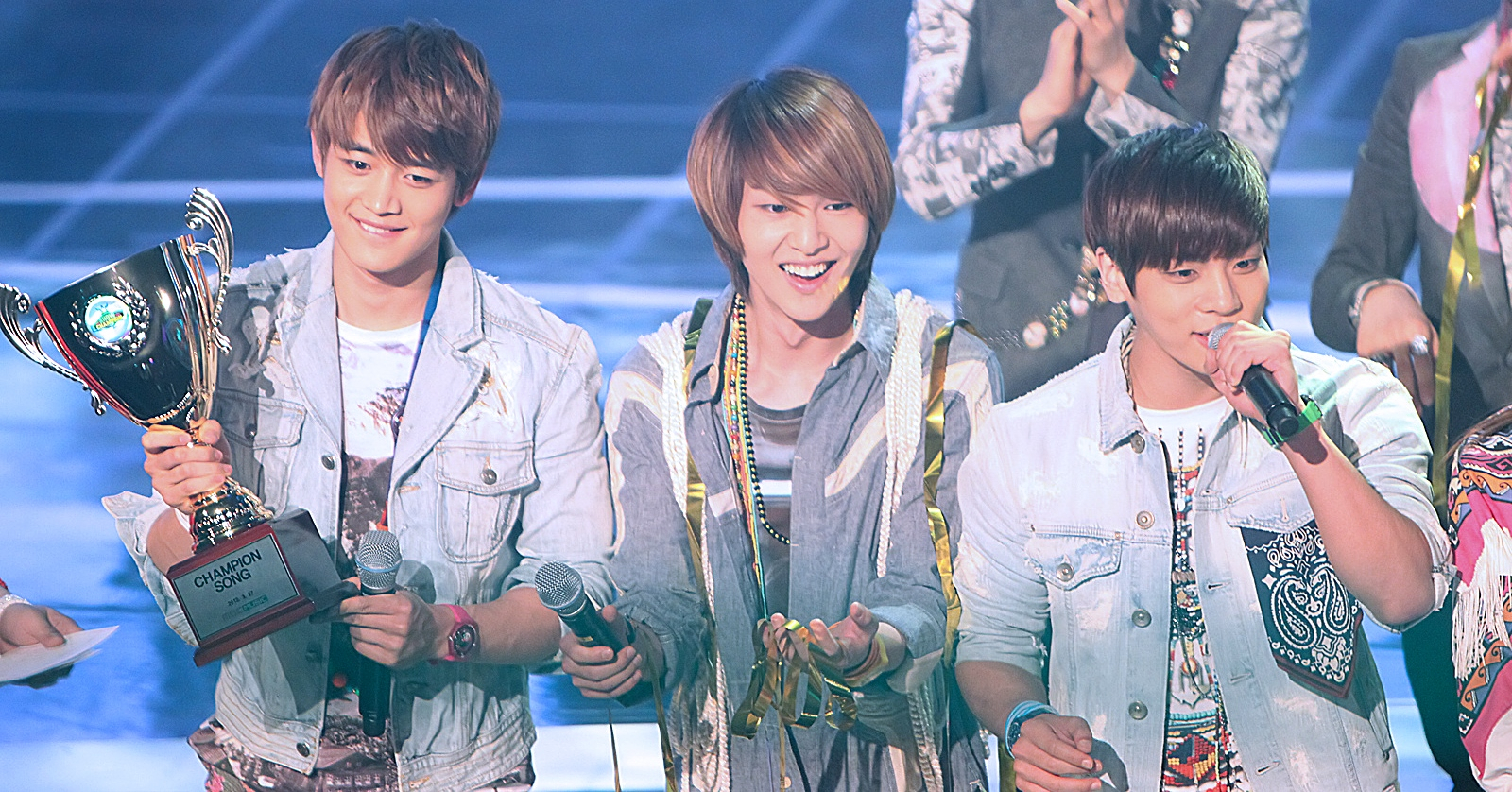 Shinee at the Show Champion on March 27, 2012.